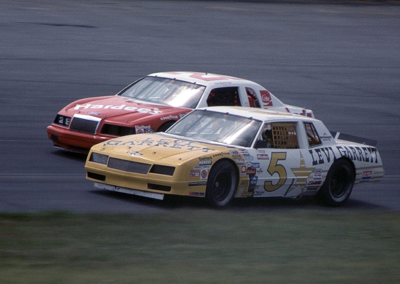 NASCAR driver Geoff Bodine racing in 1985 at Pocono. Photo By Ted Van Pelt